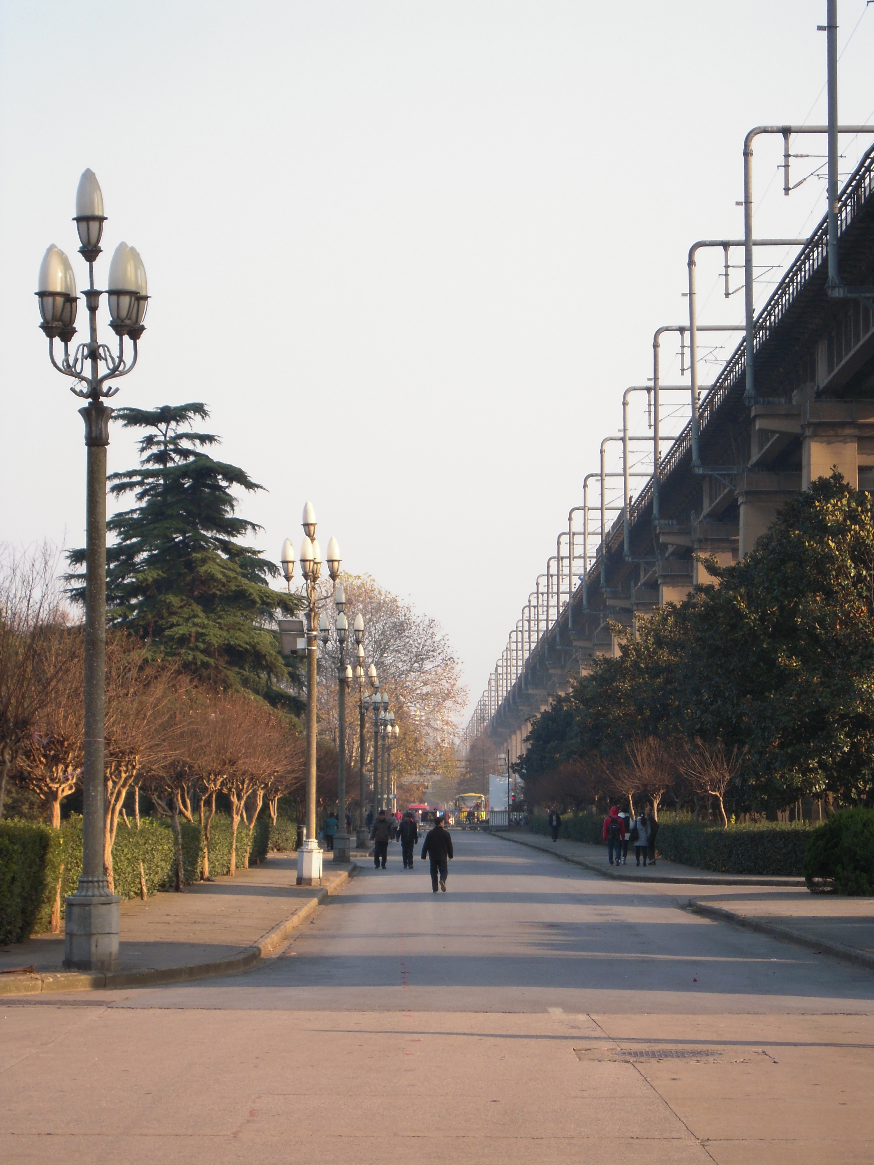 Entrance of Nanjing Yangtze River Bridge Park